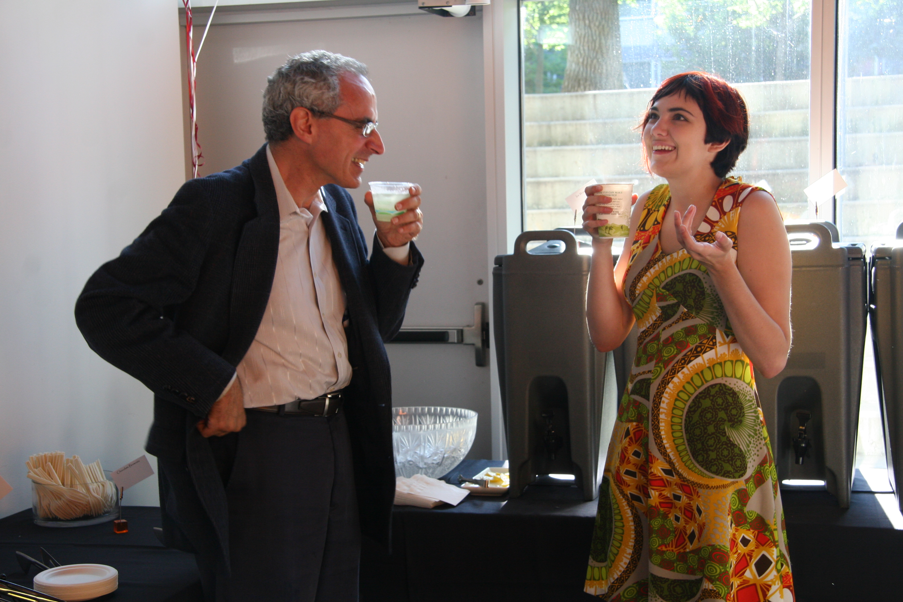 Shimer College professor David Shiner converses with a student over a meal at the school's Chicago campus during student orientation in August 2010.